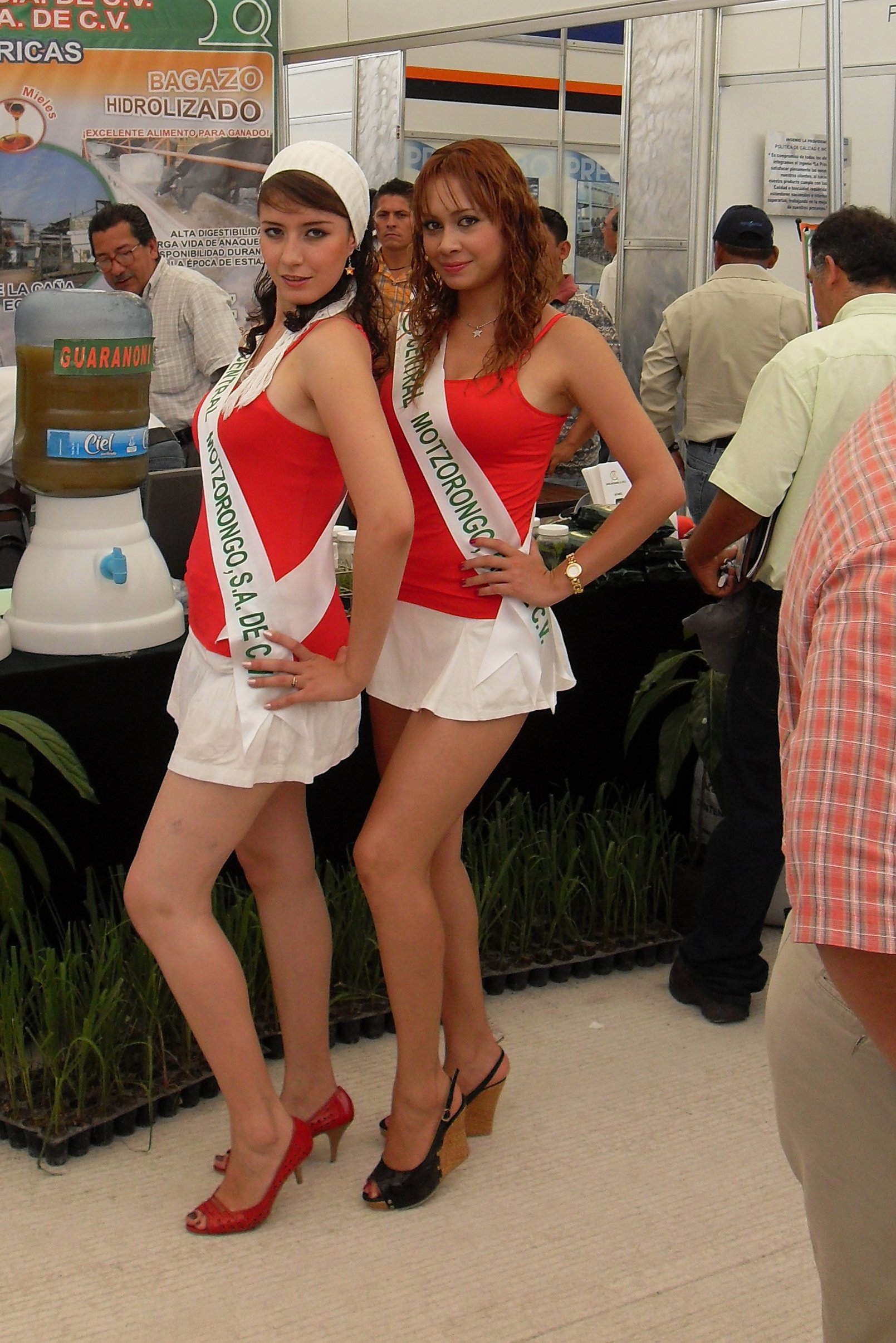 2 models on the ATAM exhibition in Córdoba, Veracruz, Mexico